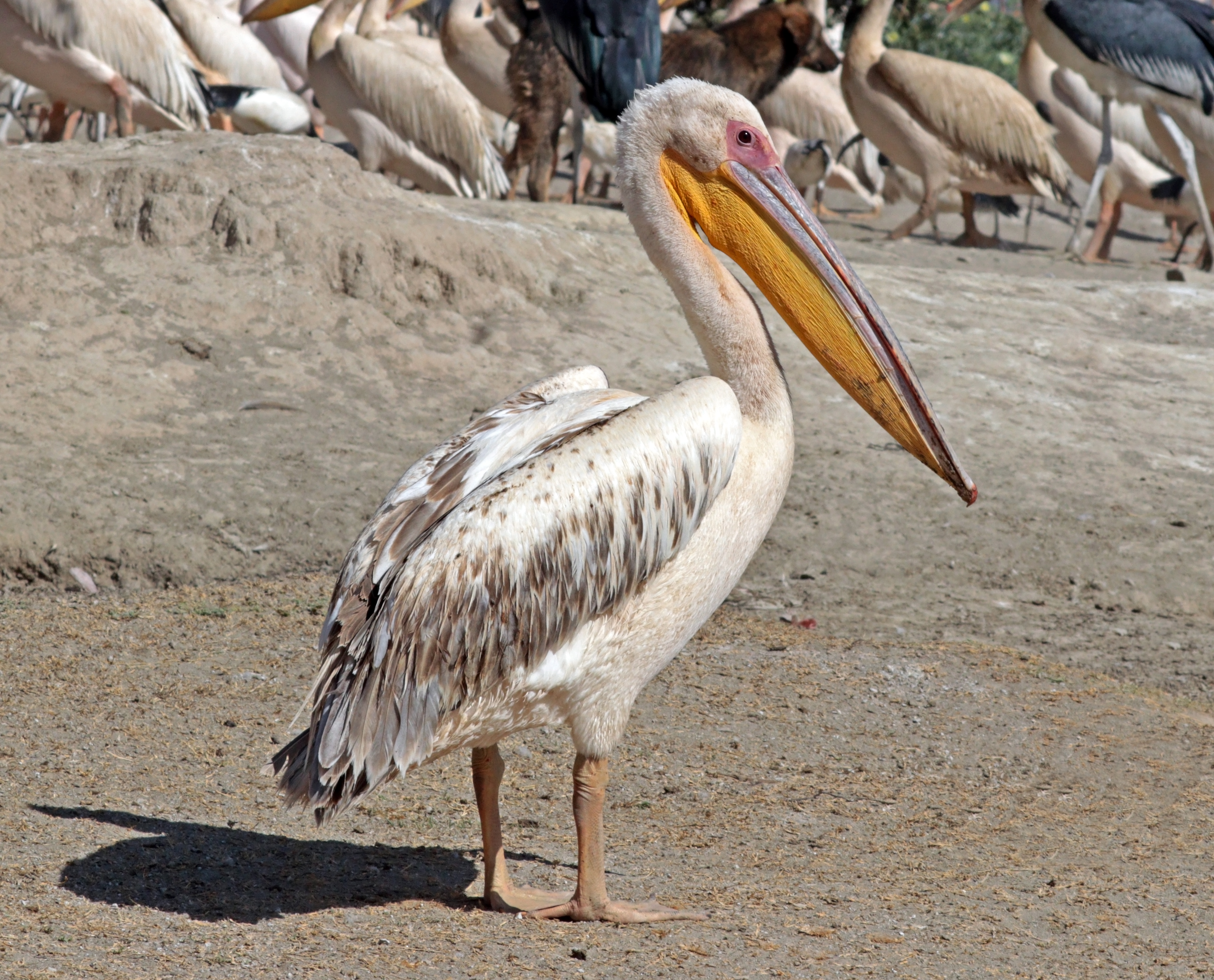 Great white pelican (Pelecanus onocrotalus), Lake Ziway, Ethiopia